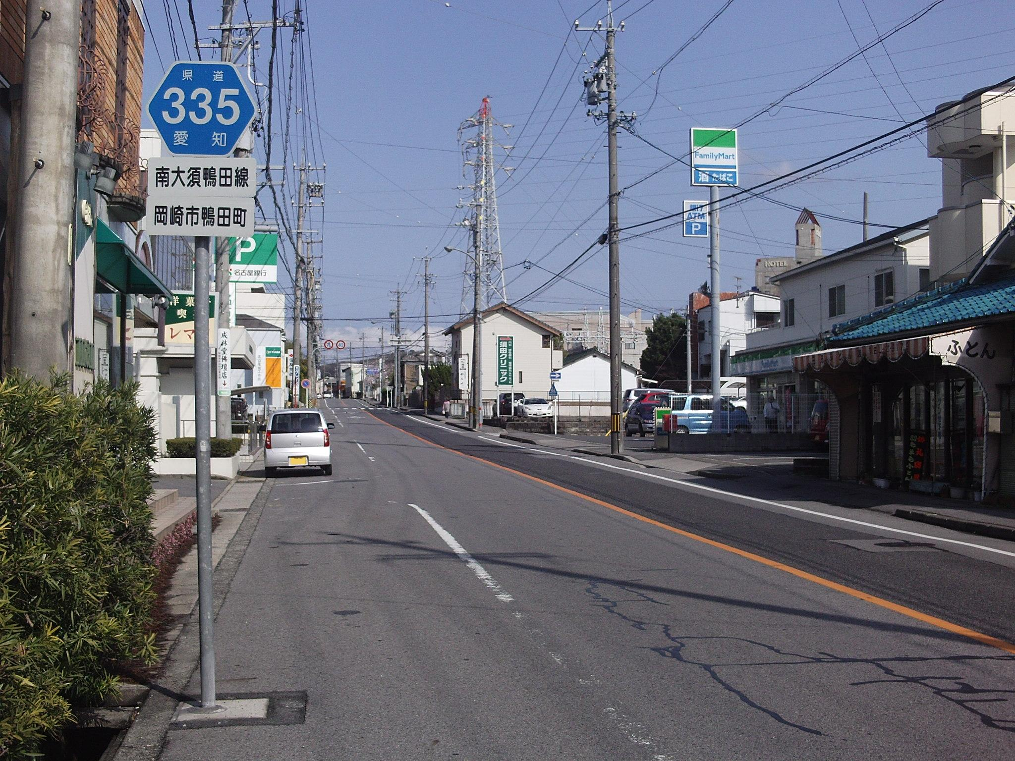 Aichi prefectural road No.335 in Kamodacho, Okazaki, Aichi.